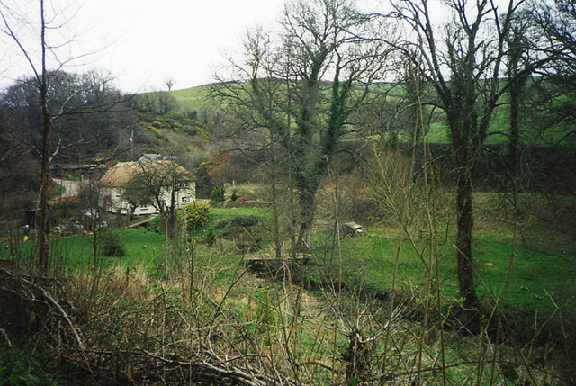 Cheriton Bishop: Frog Mill. A private residence for many years now – the mill had already been converted by the 1880s. This view from an adjoining lane indicates the line of the leat; this is the light-coloured grass-grown bank below the dark hedge at the far end of the garden. This suggests that the waterwheel was probably overshot